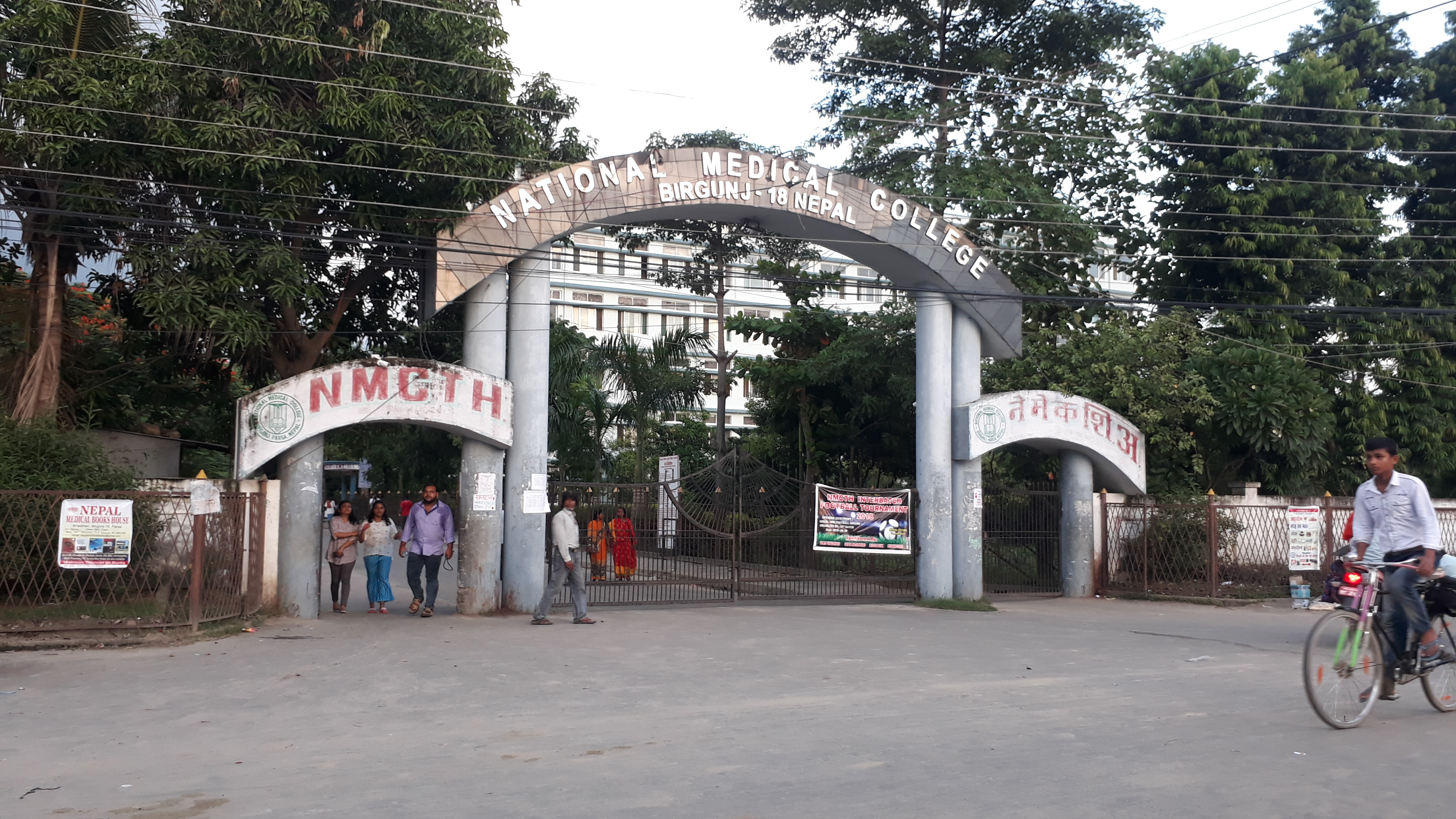 National Medical College, Birgunj, Nepal